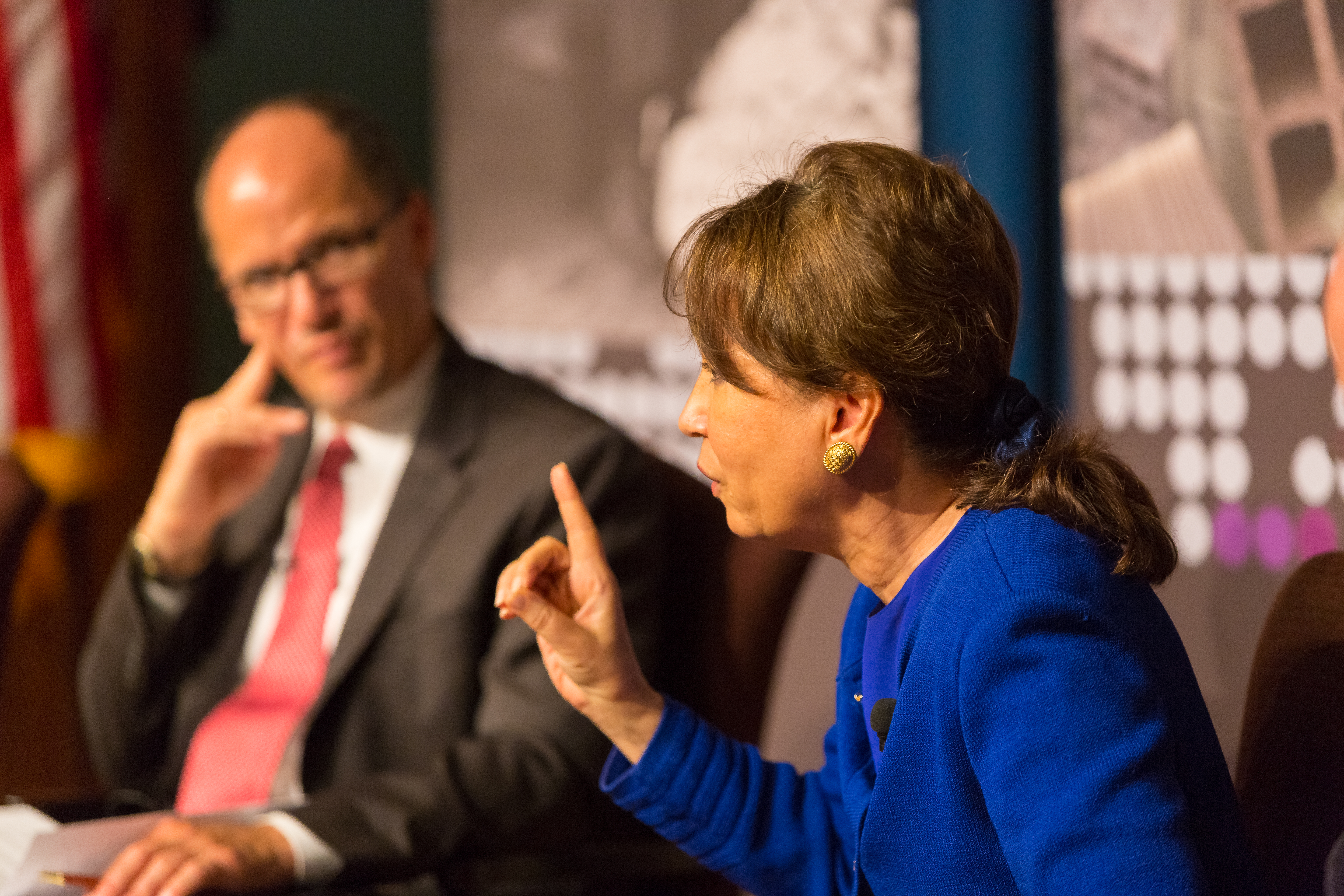 30 September 2013, Washington, DC – The U.S. Department of Labor's ILAB Office of Child Labor, Forced Labor and Human Trafficking (OCFT) released the Department of Labor's 2012 Findings on the Worst Forms of Child Labor. Secretary of Labor Thomas Perez gave remarks and then took part in a round table discussion with Former Secretary of Labor Alexis Herman, Senator Tom Harkin, and ILAB Acting Deputy Undersecretary Carol Pier. ***Official Department of Labor Photograph*** This official Department of Labor photograph is being made available only for publication by news organizations and/or for personal use printing by the subject(s) of the photograph. The photograph may not be manipulated in any way and may not be used in commercial or political materials, advertisements, emails, products, and/or promotions that in any way suggest approval or endorsement of the Secretary, or the Department of Labor. Photo Credit: Department of Labor Shawn T Moore